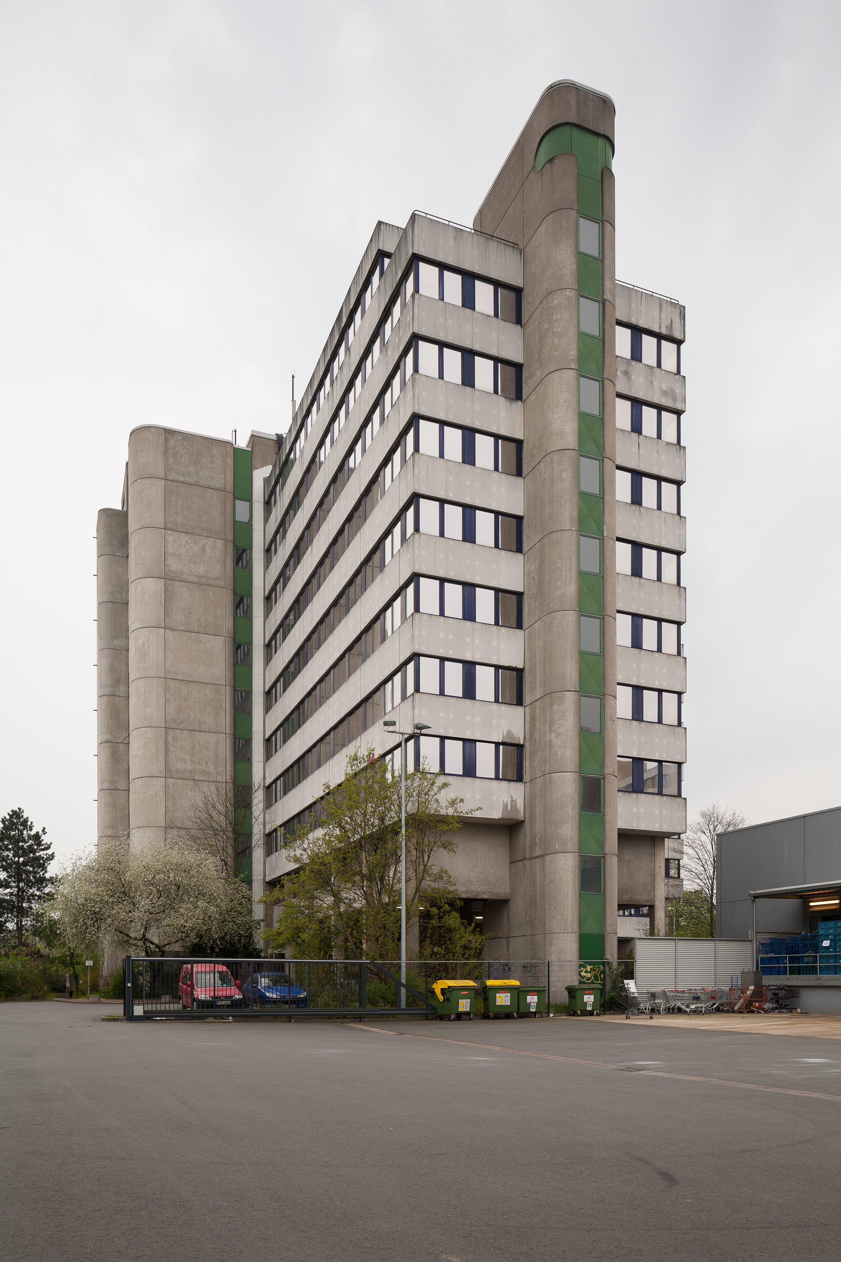 Office building of Hanover's finance authority located at Goettinger Chaussee in Oberricklingen district, Hanover, Germany.